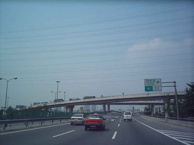 Shangqing Bridge (2). DF08 2004 image.